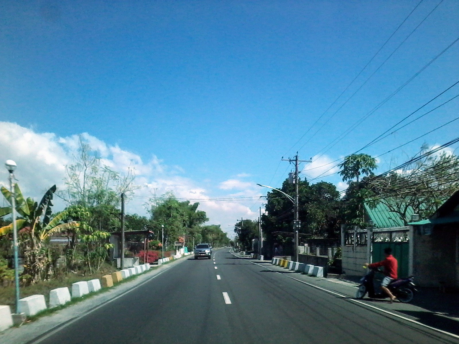 A portion of Mabalacat-Magalang Road in Magalang, Pampanga, Philippines, looking towards east. This road is a component of Route 213 of the Philippine highway network.